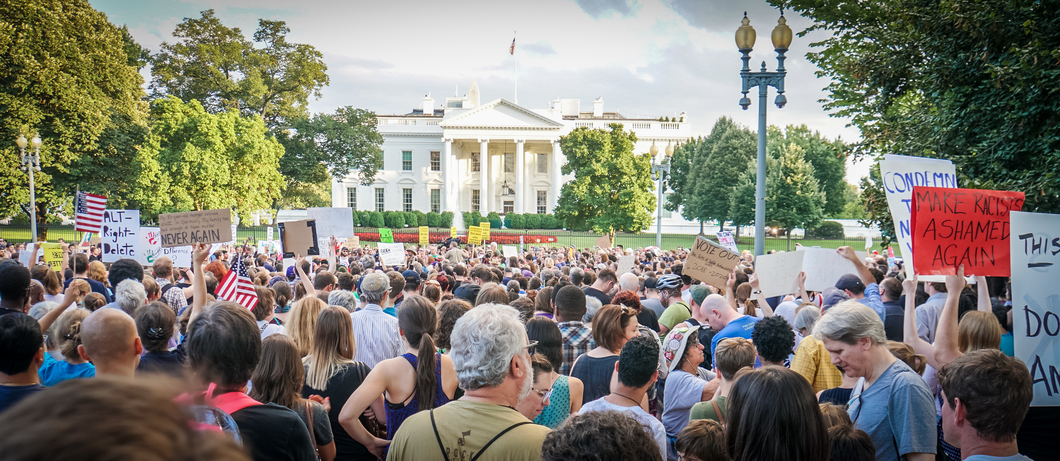 Charlottesville Candlelight Vigil at the White House, Washington, DC USA